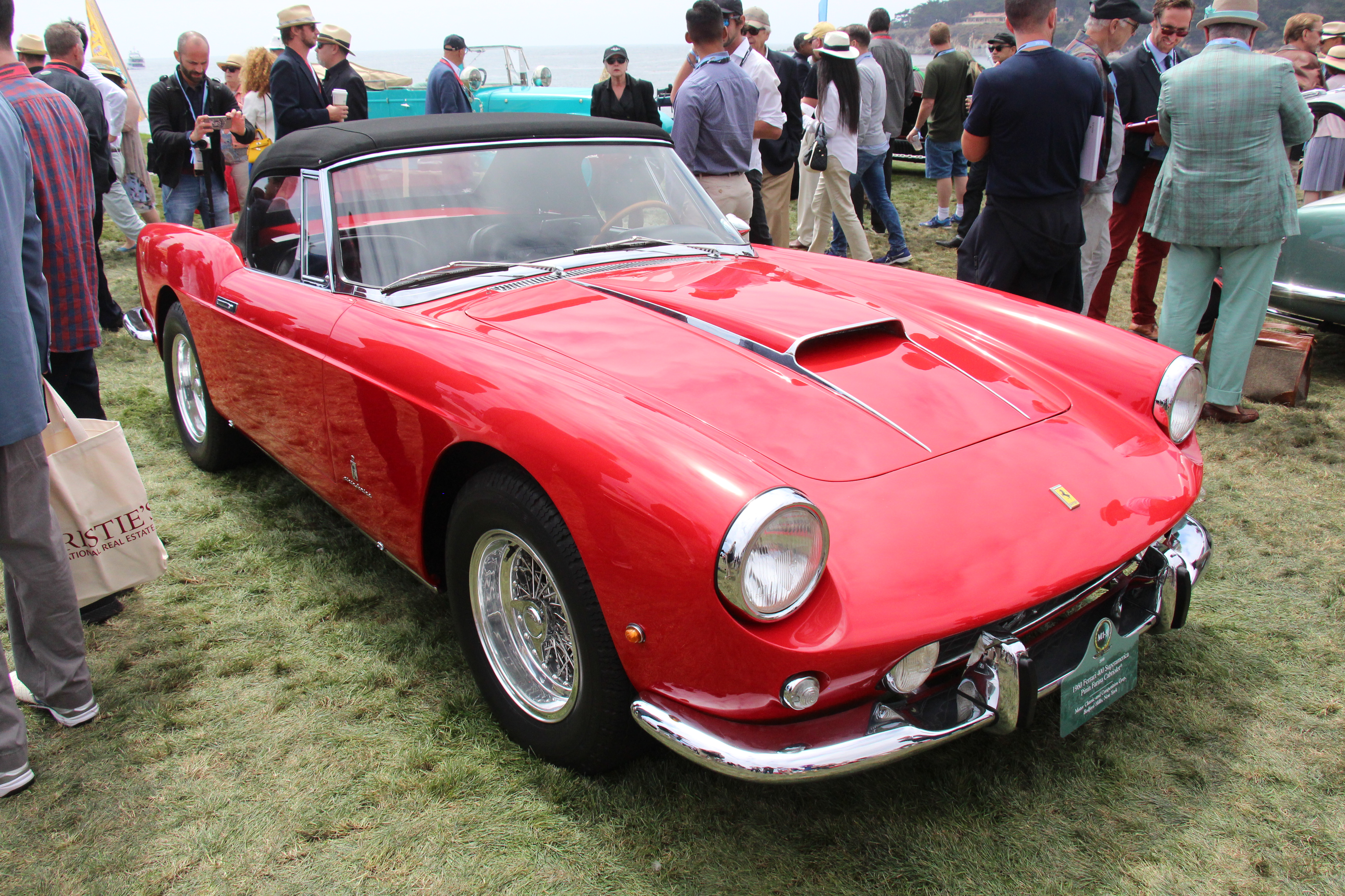 The Ferrari America was a top-end grand touring series built from 1951-67. Two of the series, the 400 and the 410, were called Superamerica. The 410 Superamerica, built from 1955-59, only 35 were produced, they had a 335hp 5000 V12. Each 410 Superamerica had custom bodywork, with a few by Boano and Ghia but most by Ferrari stalwart, Pinin Farina. The 400 Superamerica, built from 1959-64, only 47 were produced, they had a smaller, but still 340hp 4000 V12. They were available as a coupe, spider, or cabriolet with custom Pinin Farina bodywork. Series I coupés aerodinamico had open hood air scoop while series II cars had covered scoop and slightly longer wheelbase Photographed at the 2018 Pebble Beach Concours d'Elegance